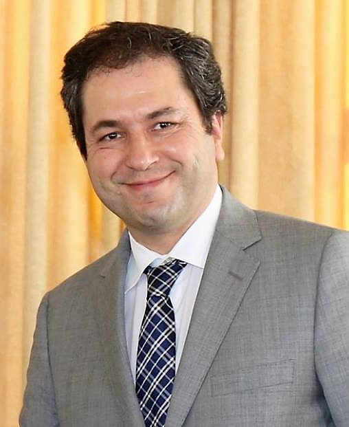 Alexandre Leitão, ambassador of the European Union to Timor-Leste.